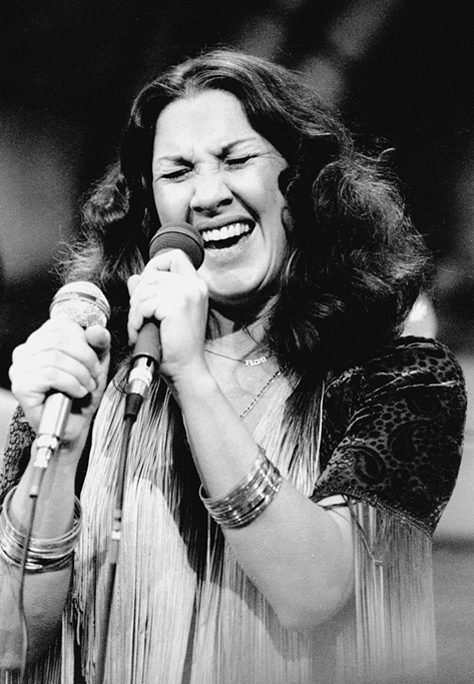 Flora Purim @ Paul Masson Jazz Festival, Saratoga CA 1981; Uploaded in 2010 Brian McMillen